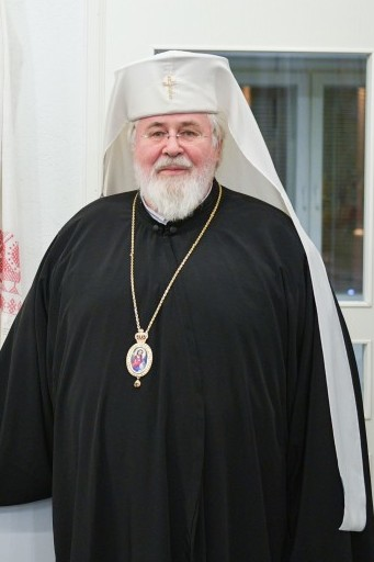 President of Ukraine met with the Primate of the Finnish Orthodox Church